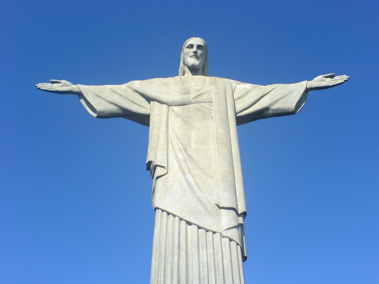 The famous monument Christ the Redeemer on the Corcovado hill, in Rio de Janeiro, Brazil.